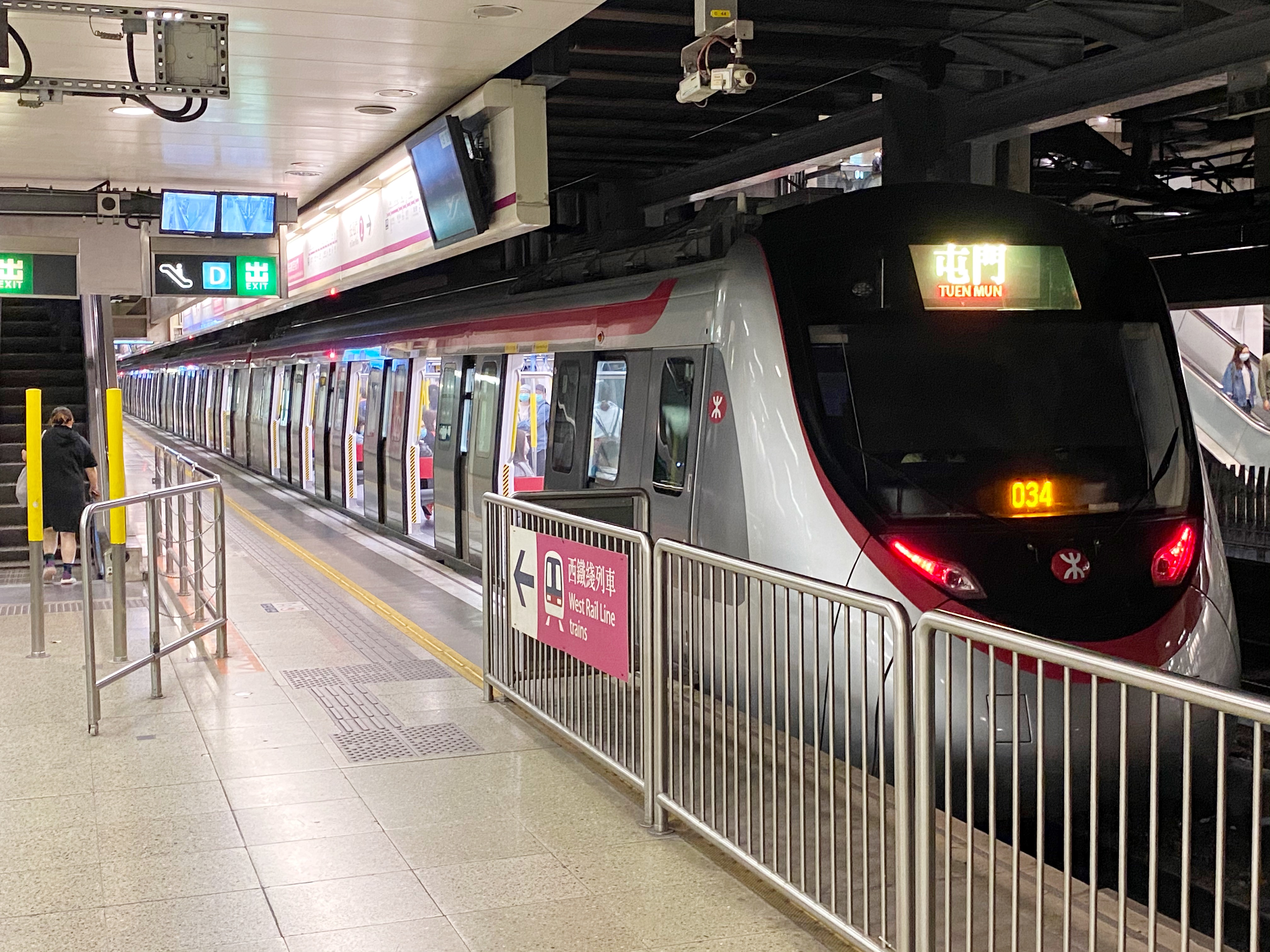 中文（香港）: This photo is taken in Hung Hom.